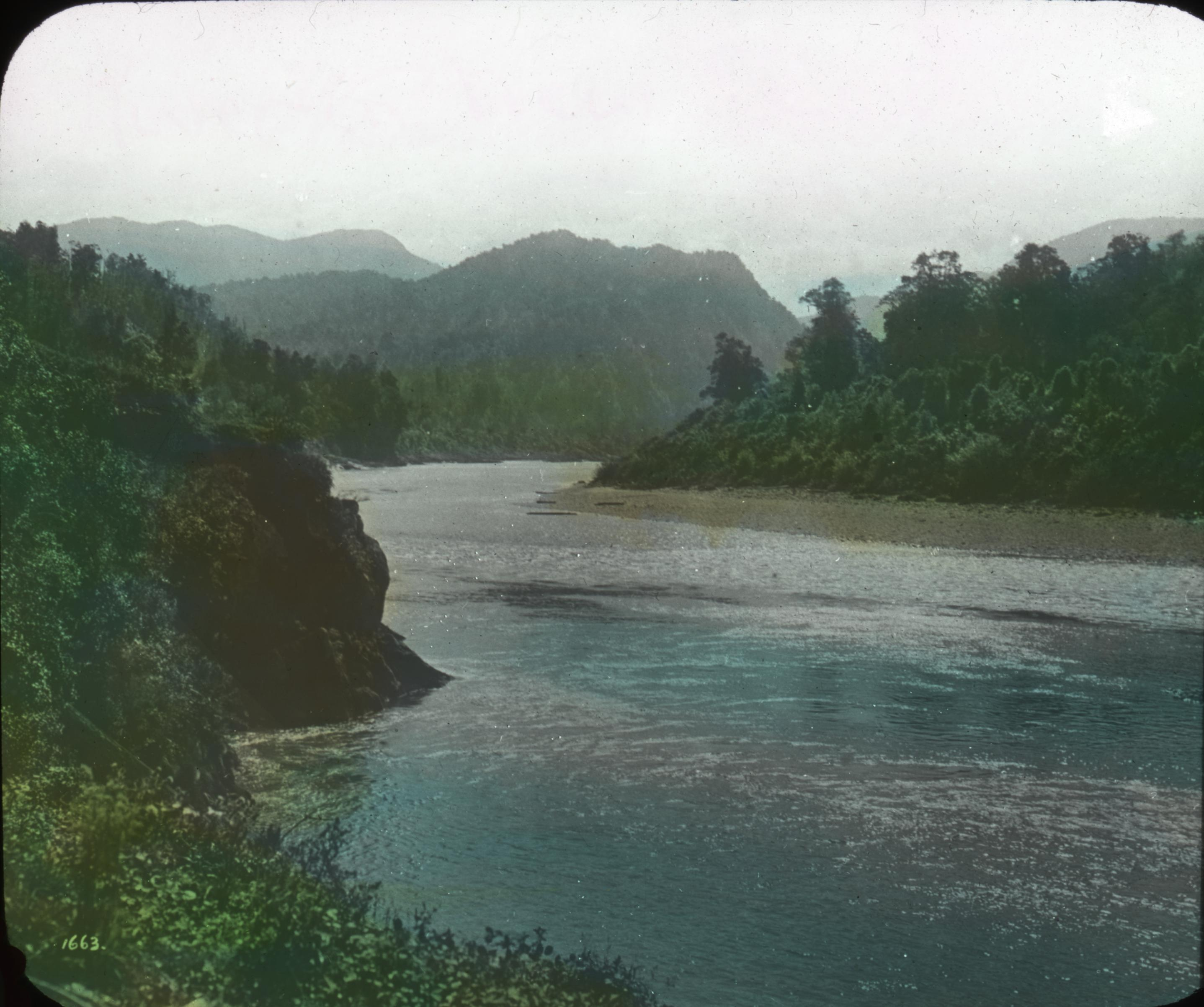 Image Description from historic lecture booklet: "No point of either North or South Island over 75 miles from the ocean. While Australia is a very dry continent having but a limited rainfall, no high mountains, and consequently no large river systems; New Zealand is comparatively a moist county, requiring little or no irrigation for its crops. The Wanganut River in North Island is famed for its beauty. For the greater part of 140 miles it runs in a deep canyon, which it has cut through hardened volcanic ash to a depth of form 200 to 500 feet. The walls of the canyon are in many places almost perpendicular and everywhere they are very steep. Both sides are covered with rich green vegetation, conspicuous amongst which are tree ferns, rising in some instances to a height of fifty (50) feet, and bearing aloft surprisingly graceful umbrella-shaped fronds. In some places along the course of the river the banks are so steep that the natives are obliged to go to and from their canoes by means of ladders." Original Collection: Visual Instruction Department Lantern Slides Item Number: P217:set 039 049 You can find this image by searching for the item number by clicking here. Want more? You can find more digital resources online. We're happy for you to share this digital image within the spirit of The Commons; however, certain restrictions on high quality reproductions of the original physical version may apply. To read more about what “no known restrictions” means, please visit the Special Collections & Archives website, or contact staff at the OSU Special Collections & Archives Research Center for details.